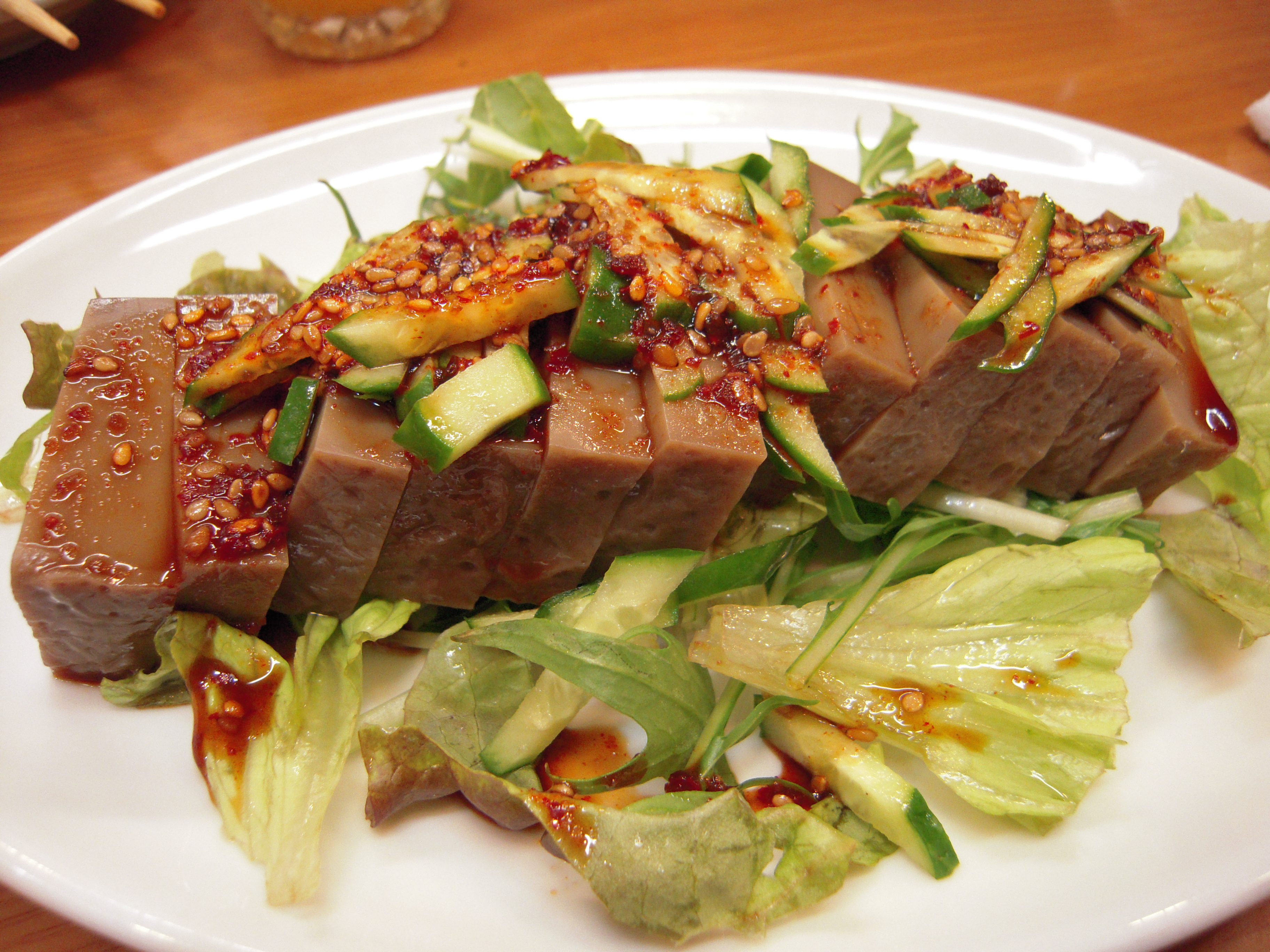 Dotorimuk, Korean acorn jelly